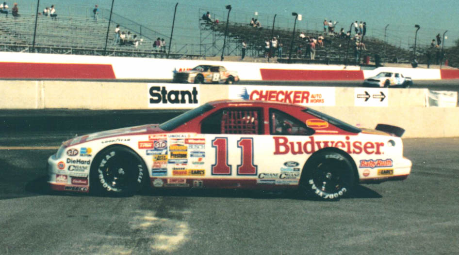 Terry Labonte drove Junior Johnson's Budweiser #11 Ford to a 2nd place finish in the 1989 Checker Autoworks 500 at Phoenix.